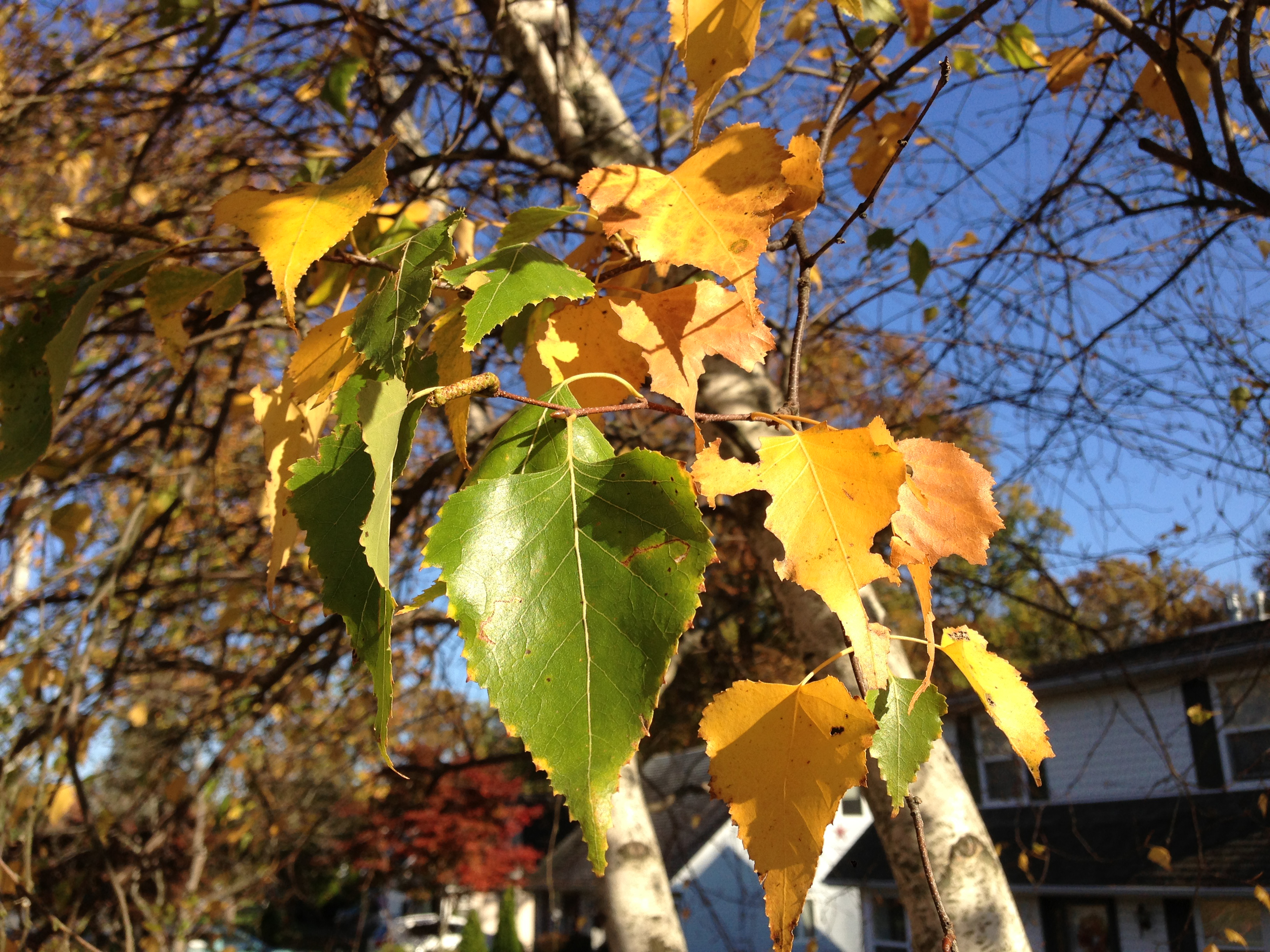 Birch foliage during autumn along Terrace Boulevard in Ewing, New Jersey